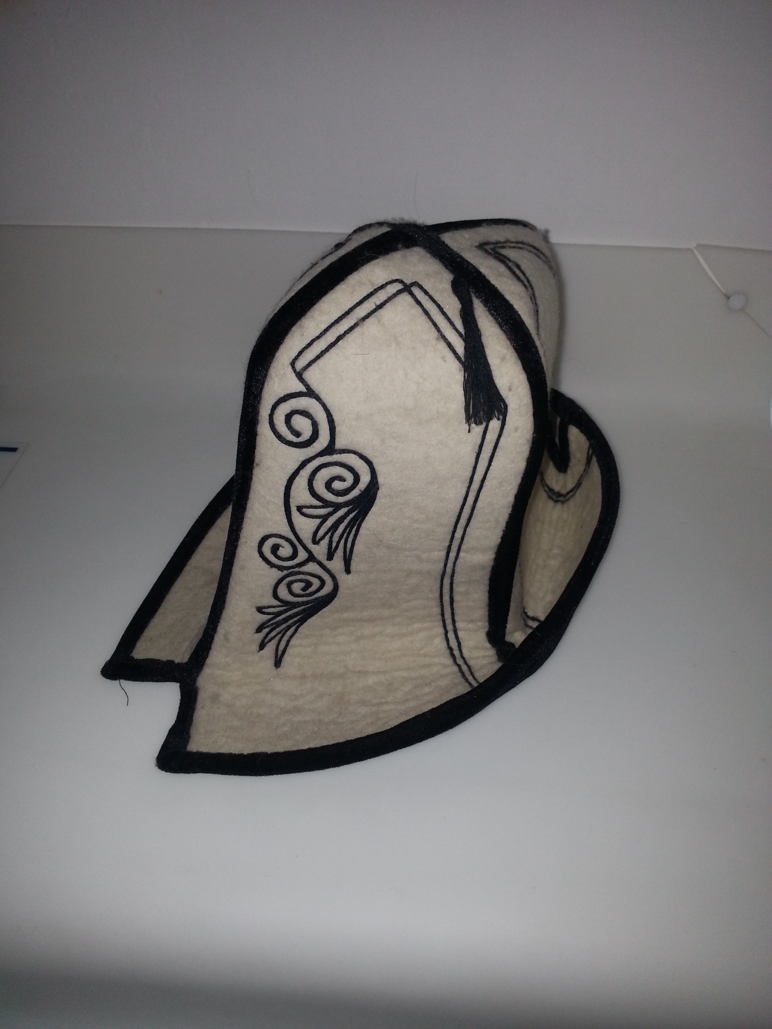 Zagreb 's Museum of Broken Relationships : a kalpak (hat in the Kyrgyz tongue).